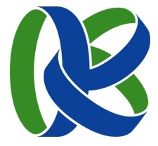 Kasama Ibaraki chapter